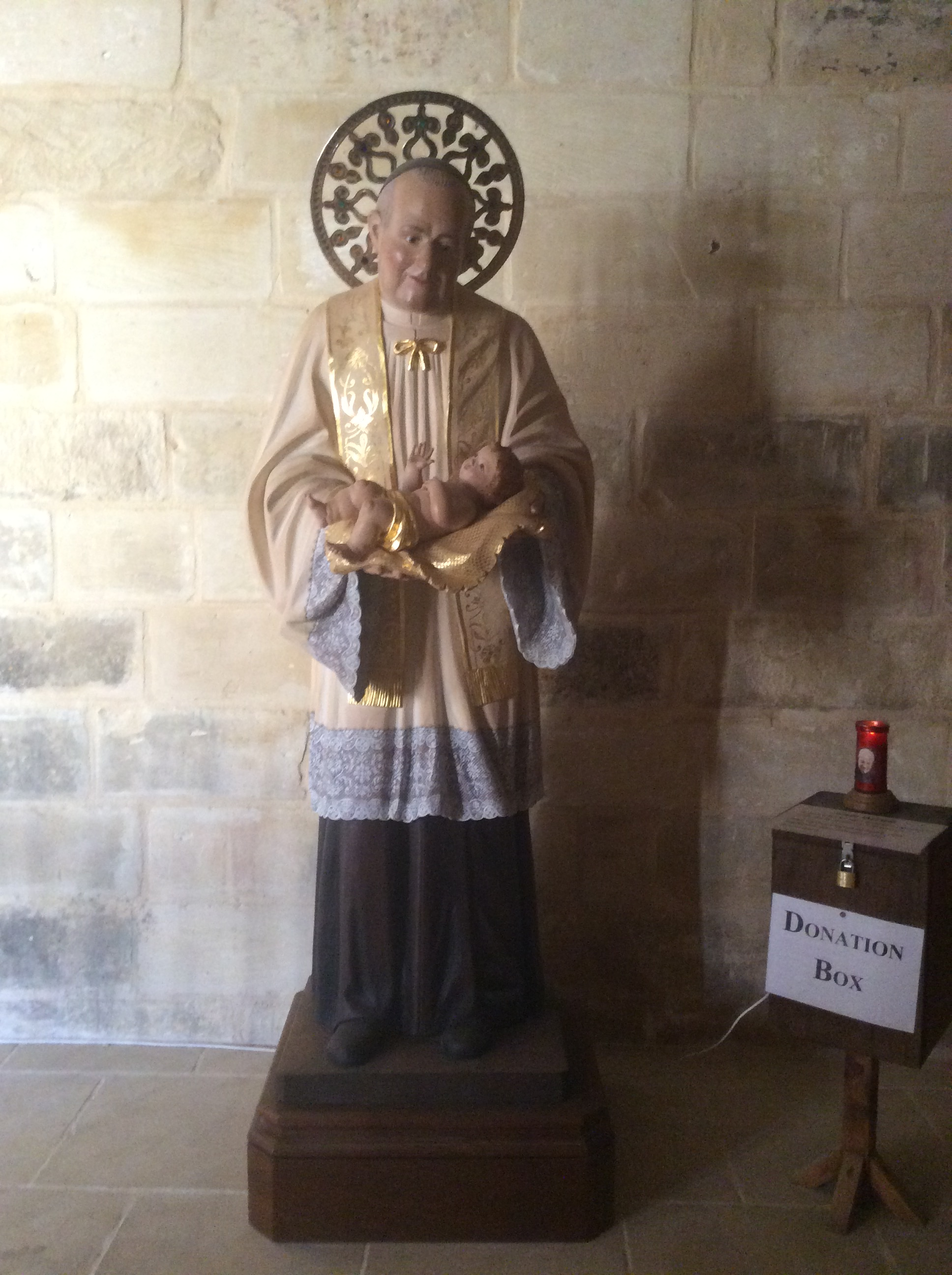 Statue of Saint George Preca at Montekristo Estates, Hal Farrug, Luqa